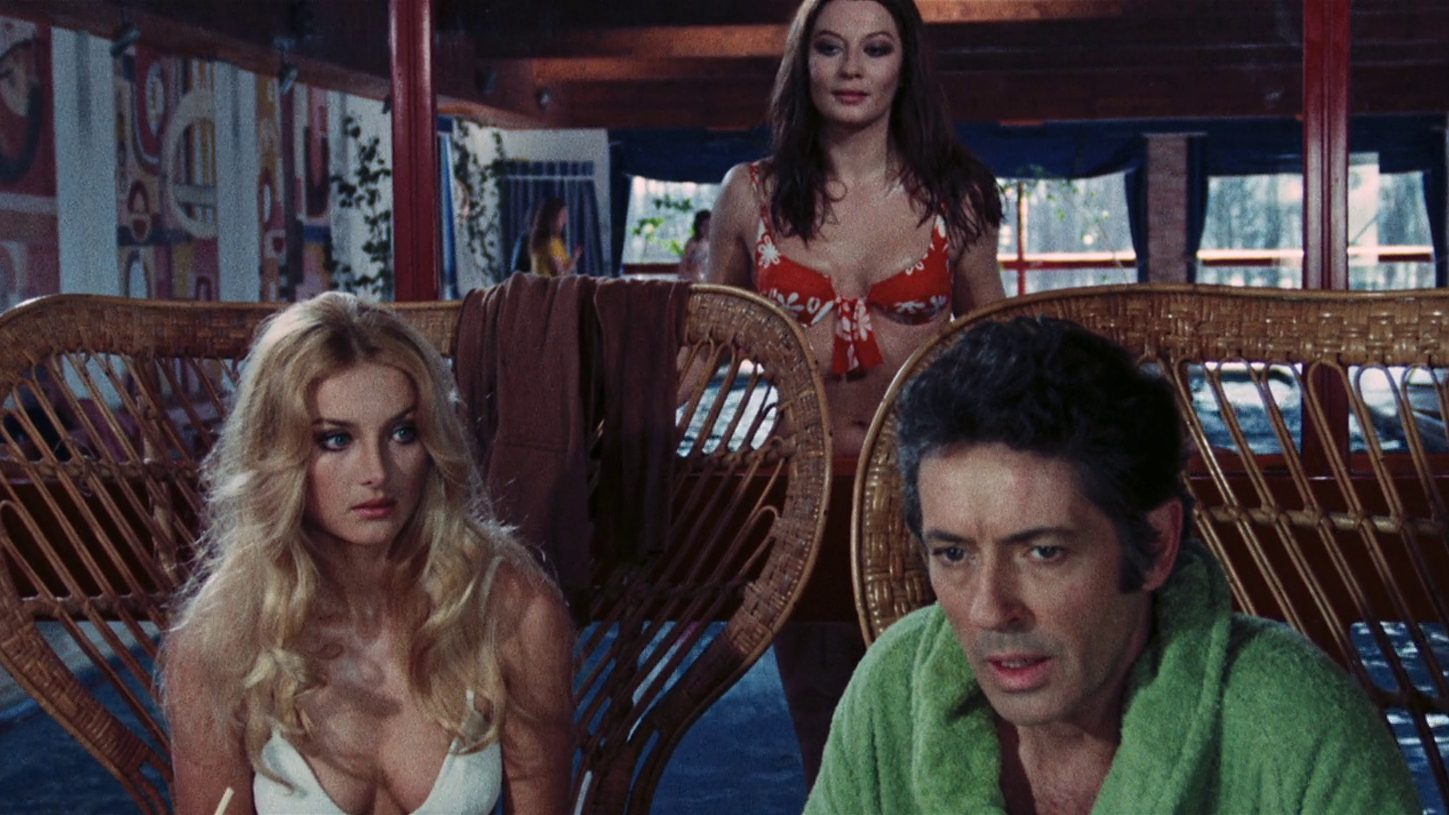 Barbara Bouchet, Rosalba Neri and Farley Granger in a scene from the movie, Amuck (1972).